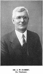 Description: Mr. A.W. Cusbert second Principal of Canterbury Boys' High School, ca.1933–1946.